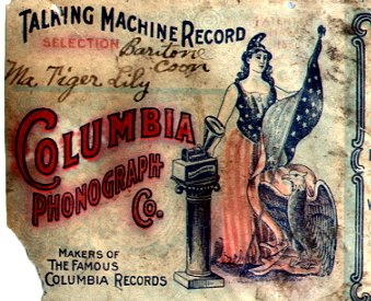 Label from a Columbia Records phonograph cylinder package, before 1901. Note that title and description of the recording are hand written on the generic printed label.